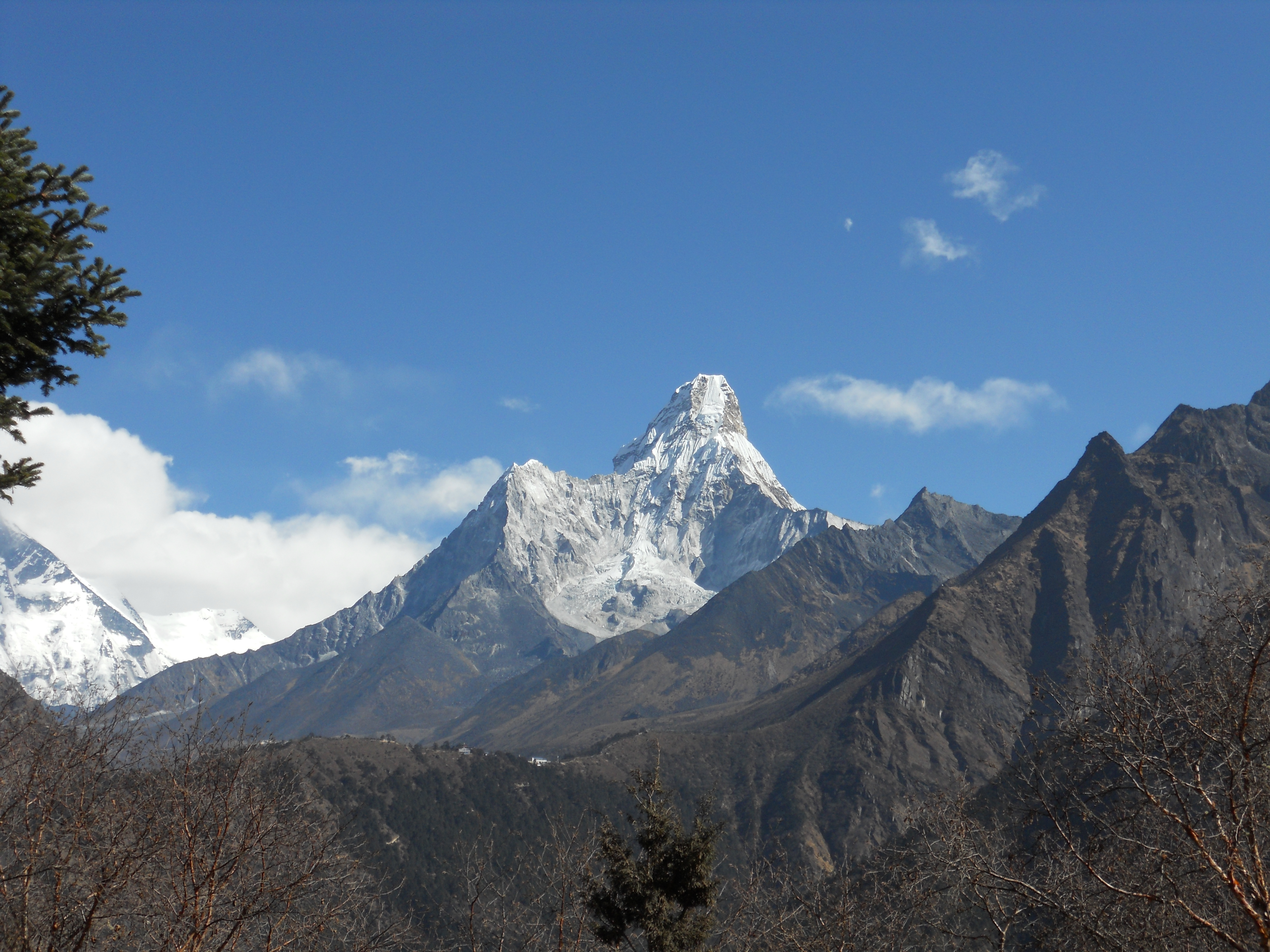 Aamadablam mountain